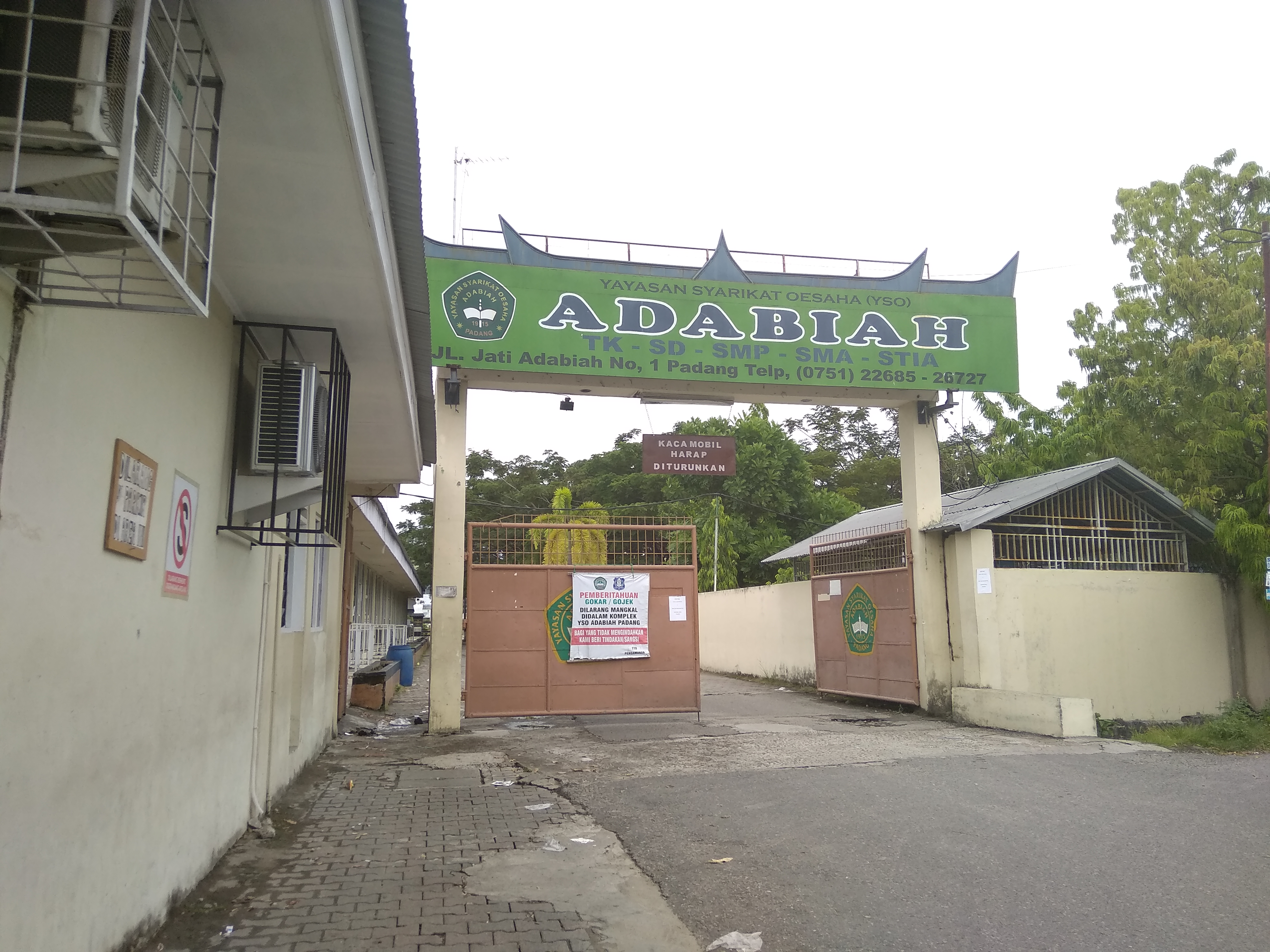 New gate of Yayasan Syarikat Oesaha Adabiah (YSO) on Jati Adabiah street, East Padang, Padang city.